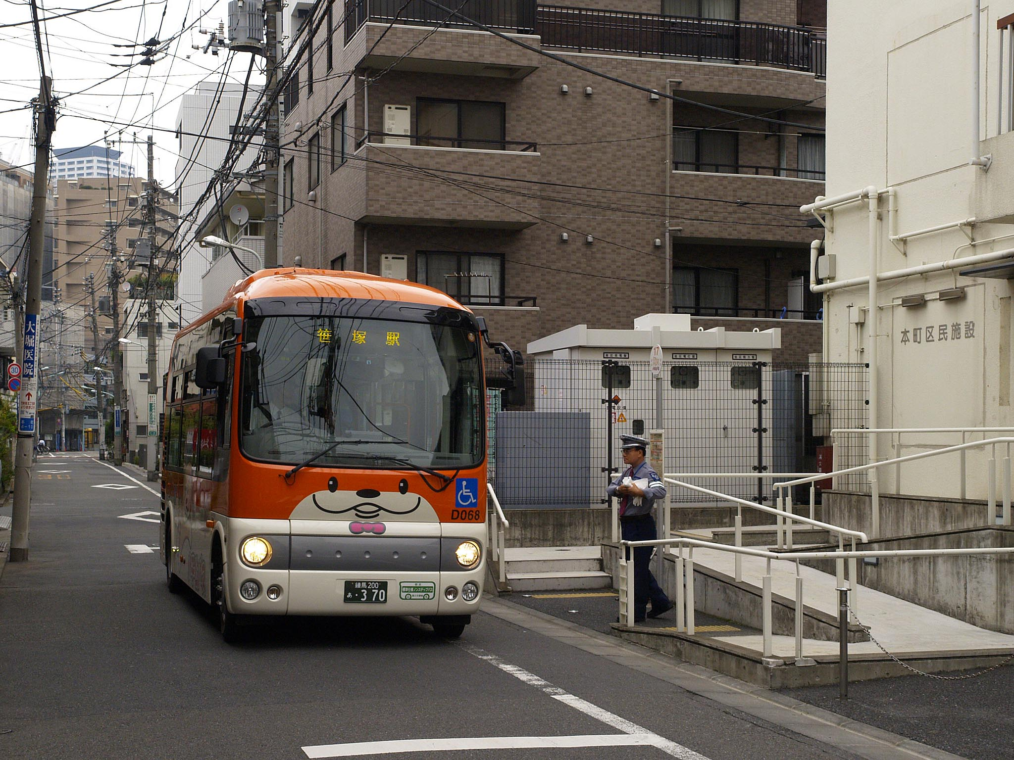 Fleet of Hachiko Bus, opeated in "Haruno Ogawa" (River of Spring) route by Keio Bus Higashi. Model: Hino Poncho HX6JHAE License plate: TKN200A-370 Place: Honcho, Shibuya Ward, Tokyo Japan